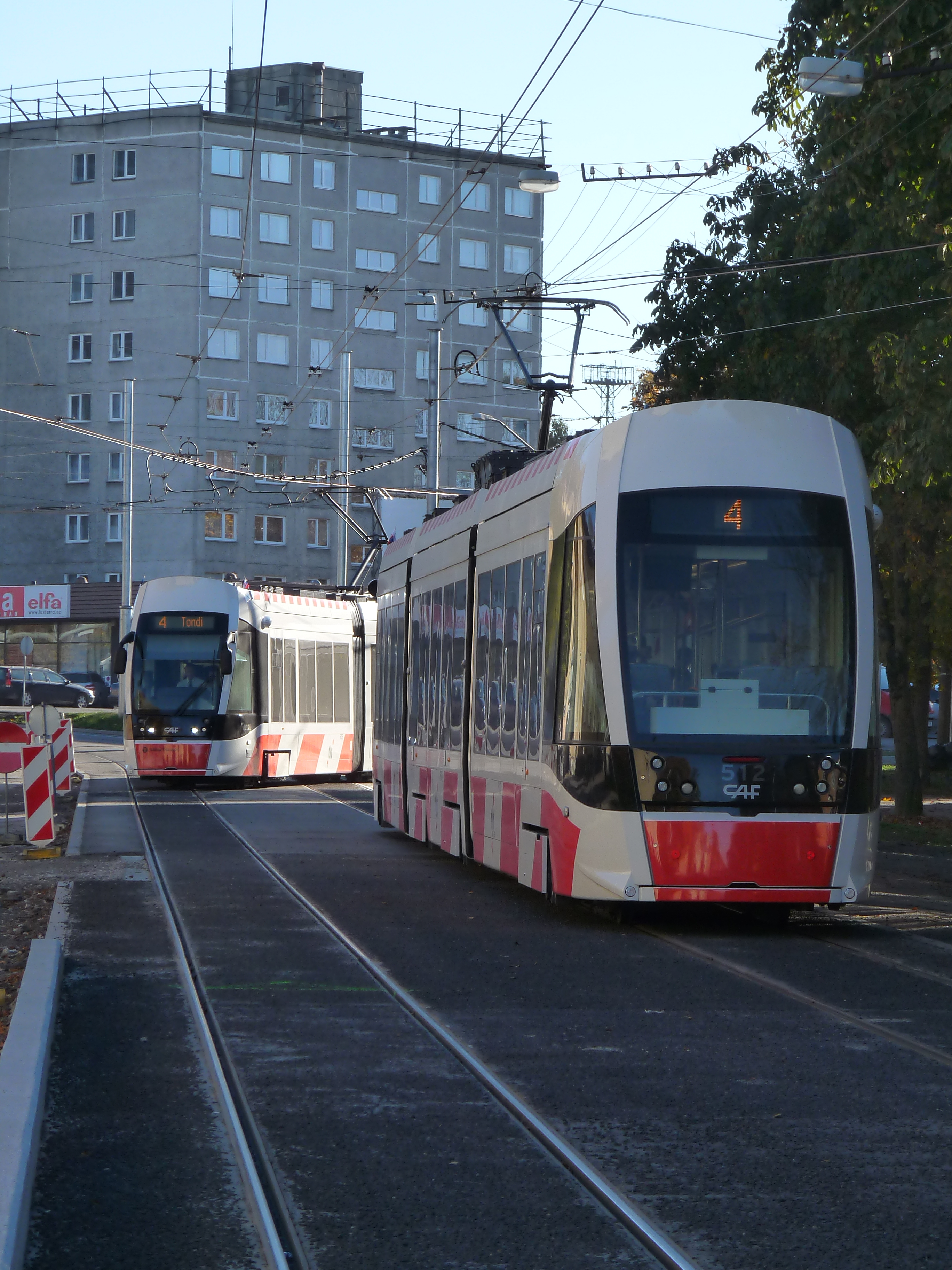 CAF trams in Tallinn, Estonia